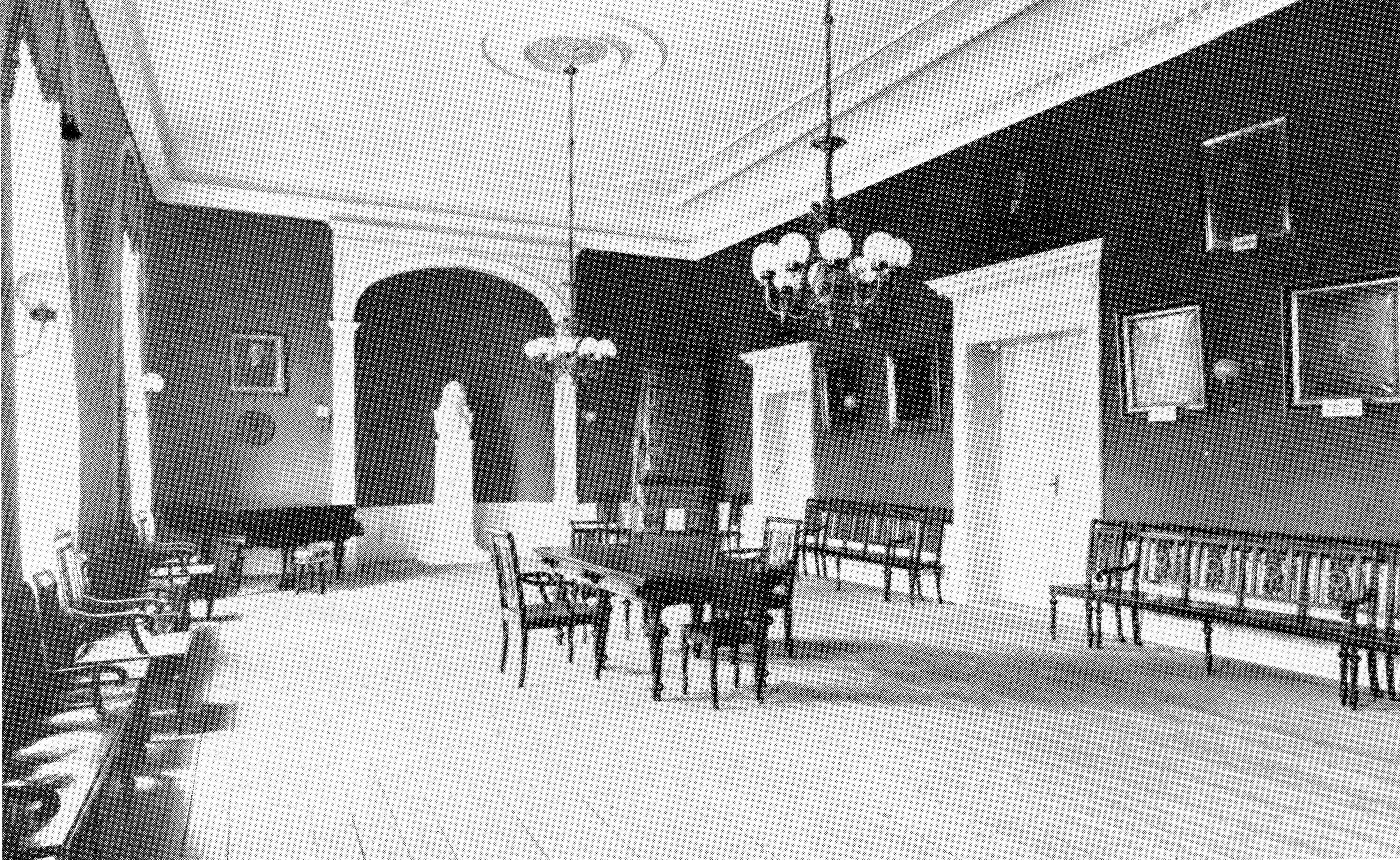 Smålands Nation, Uppsala. Second nation house. Nation hall.